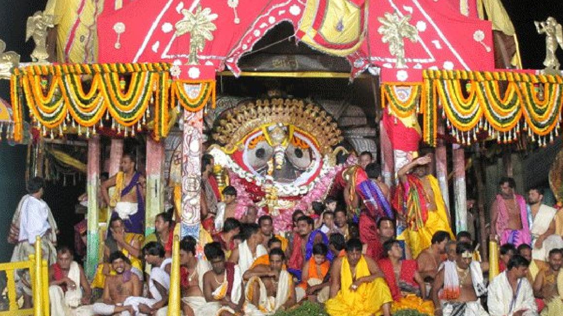 Golden Attire or Suna besa of Lord Shri Jagannath of Puri